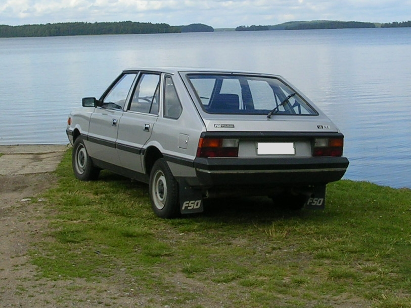 The lake is Karelian Pyhäjärvi, what is famous about it's clean water.